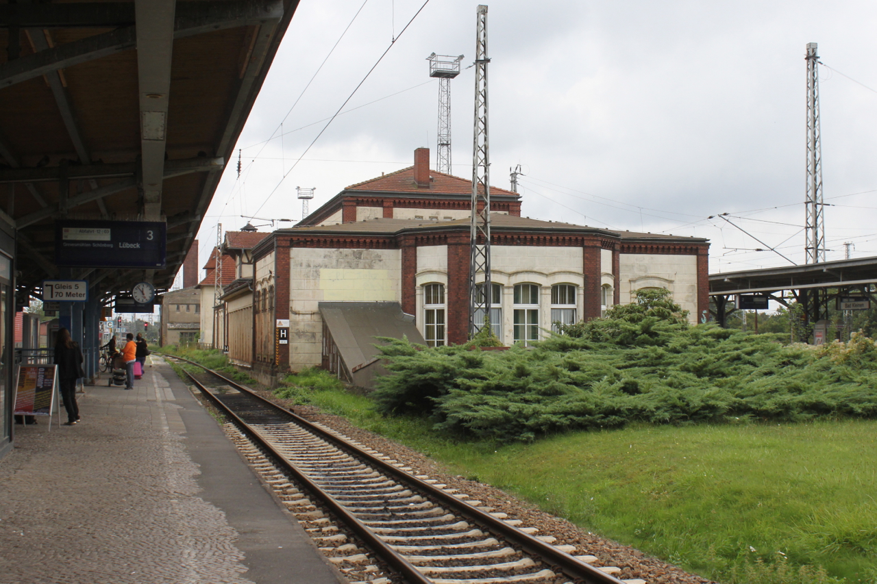 Bad Kleinen train station.